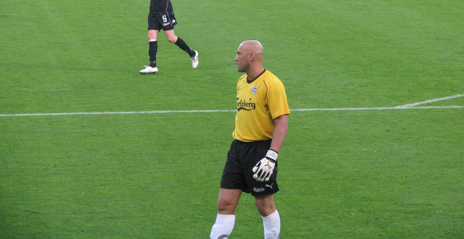 Picture of Arkadiusz Onyszko, a polish fotball player playing for Odense Boldklub.